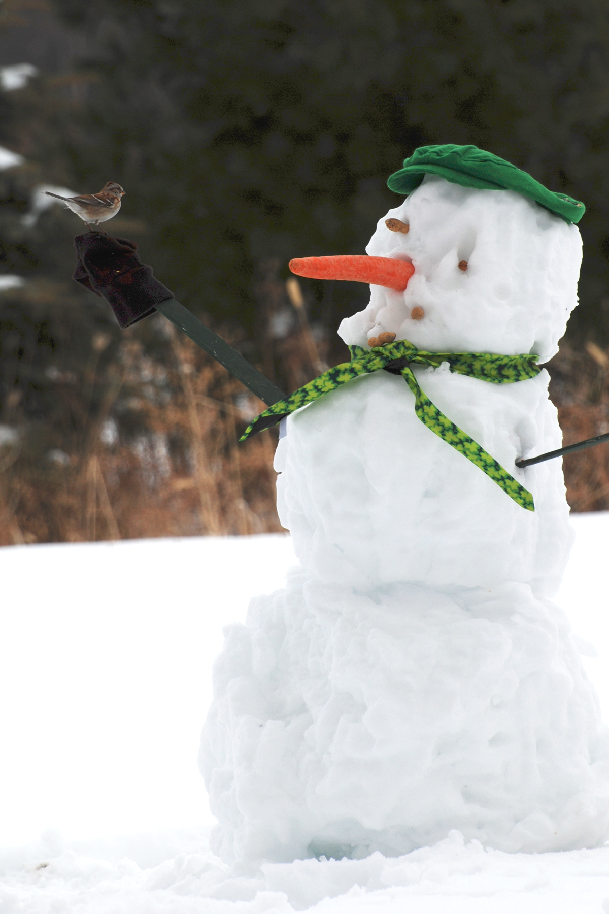 A snowman with a bird that had landed on its arm.